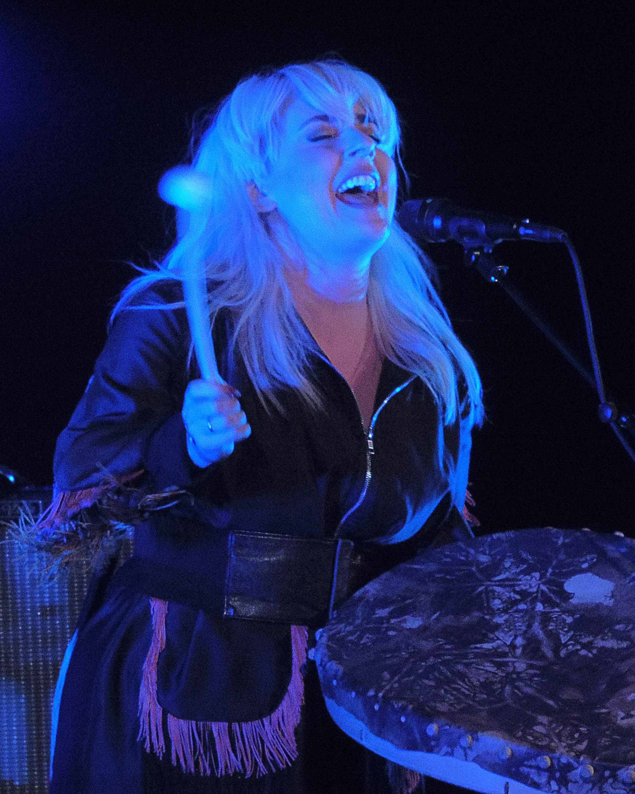 Performing at Iceland Airwaves, 10 November 2108